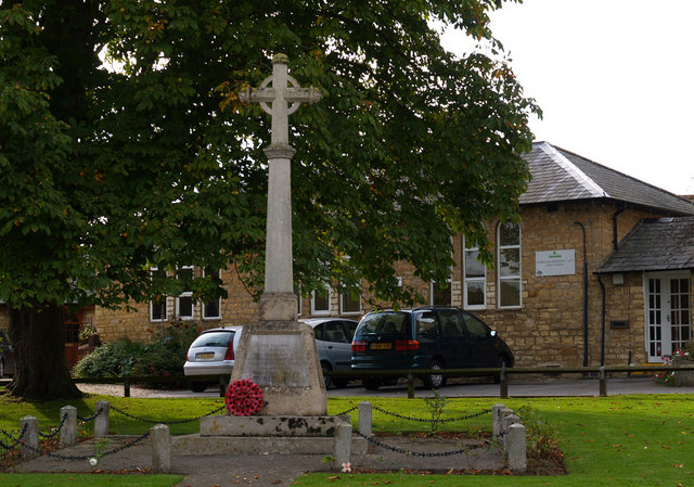 War Memorial (with School in background). Stoke Goldington.